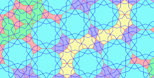 Reconstruction of File:Panel29.JPG using girih tiles in File:Girih tiles.svg.